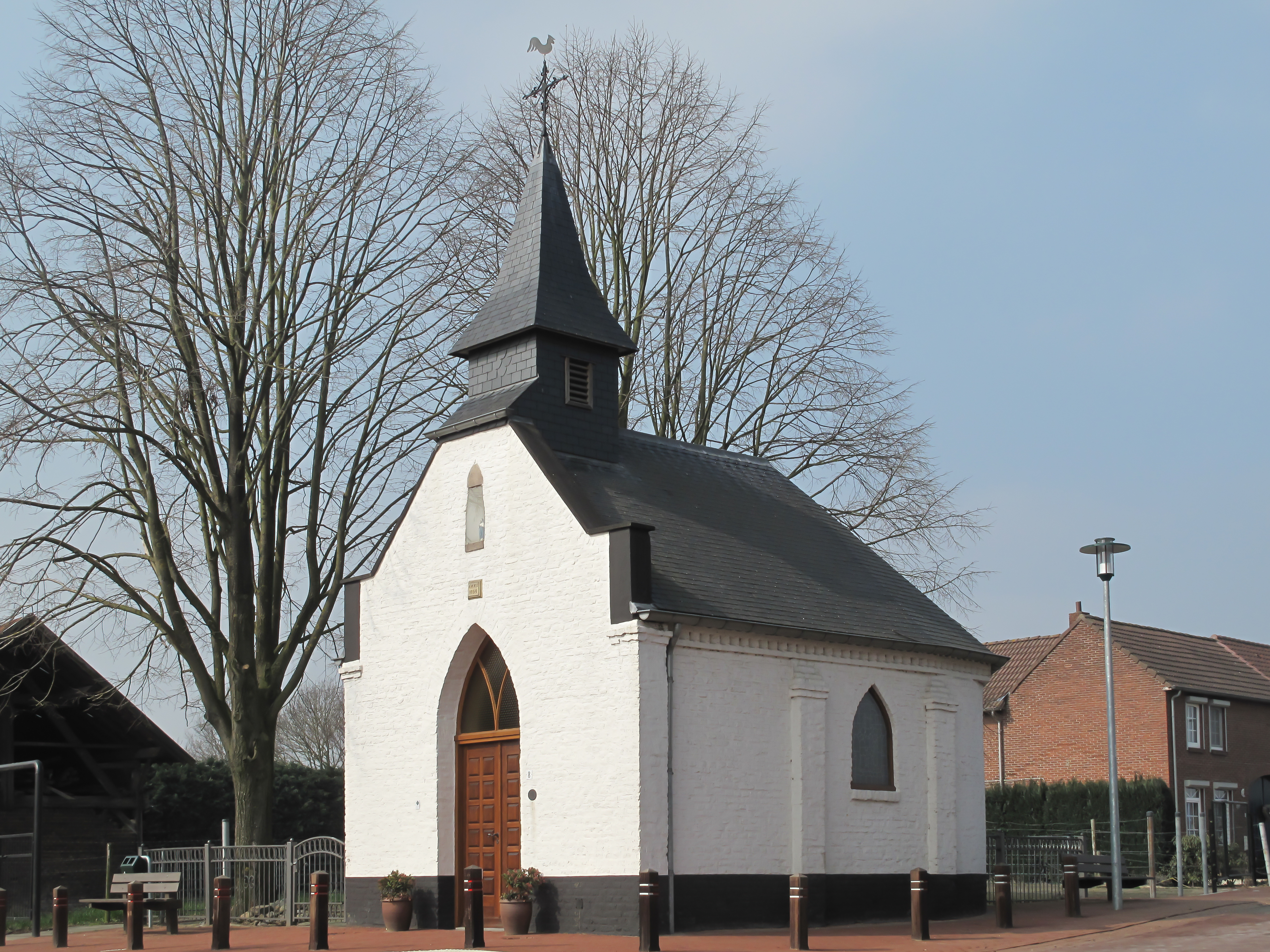 Spaanshuisken, chapel